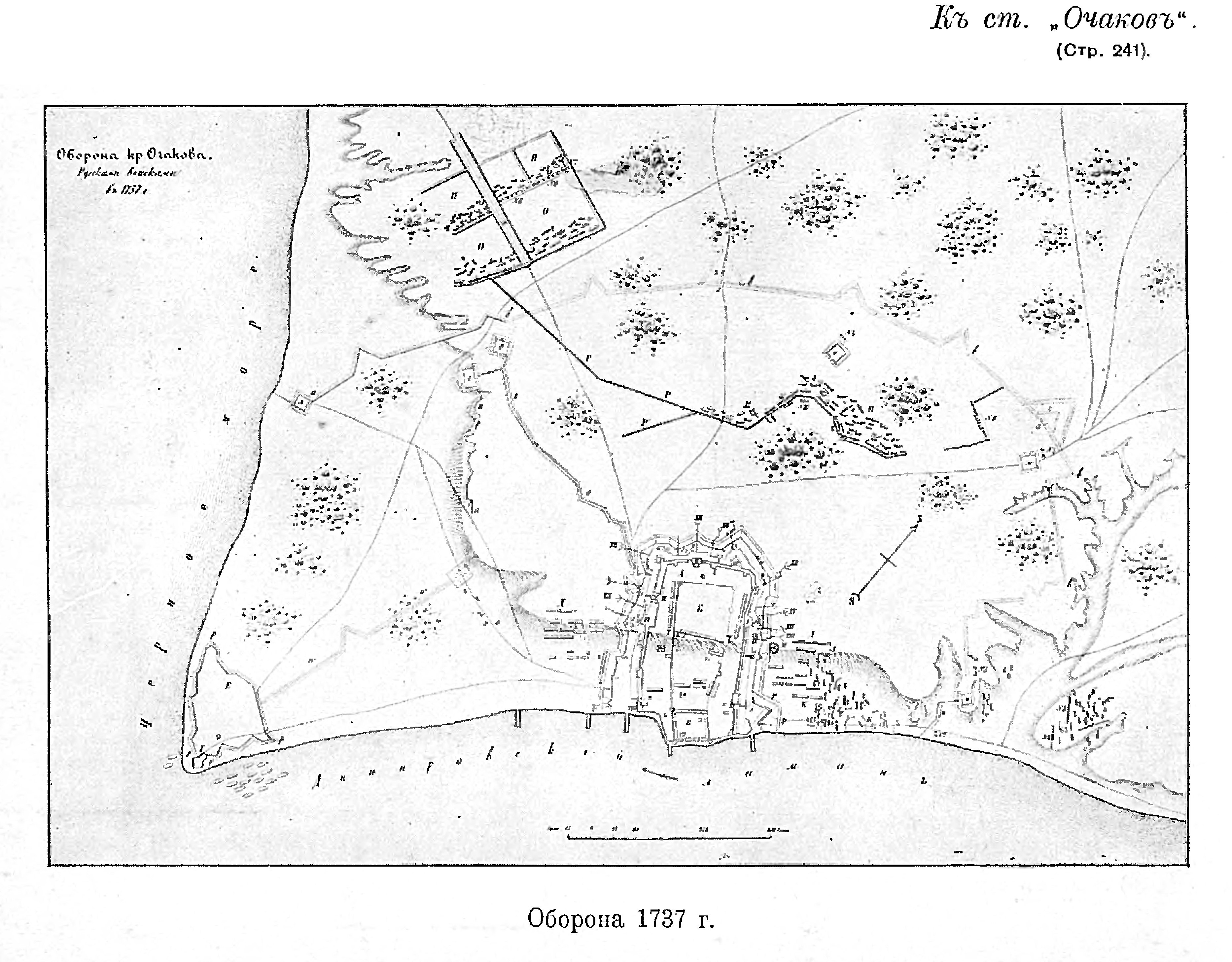 Ochakiv